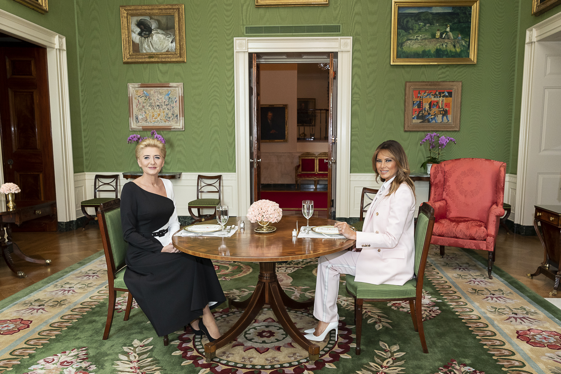 First Lady Melania Trump has lunch with Mrs. Agata Kornhauser-Duda, wife of Polish President Andrzej Duda Wednesday, June 12, 2019, in the Green Room of the White House. (Official White House Photo by Andrea Hanks)